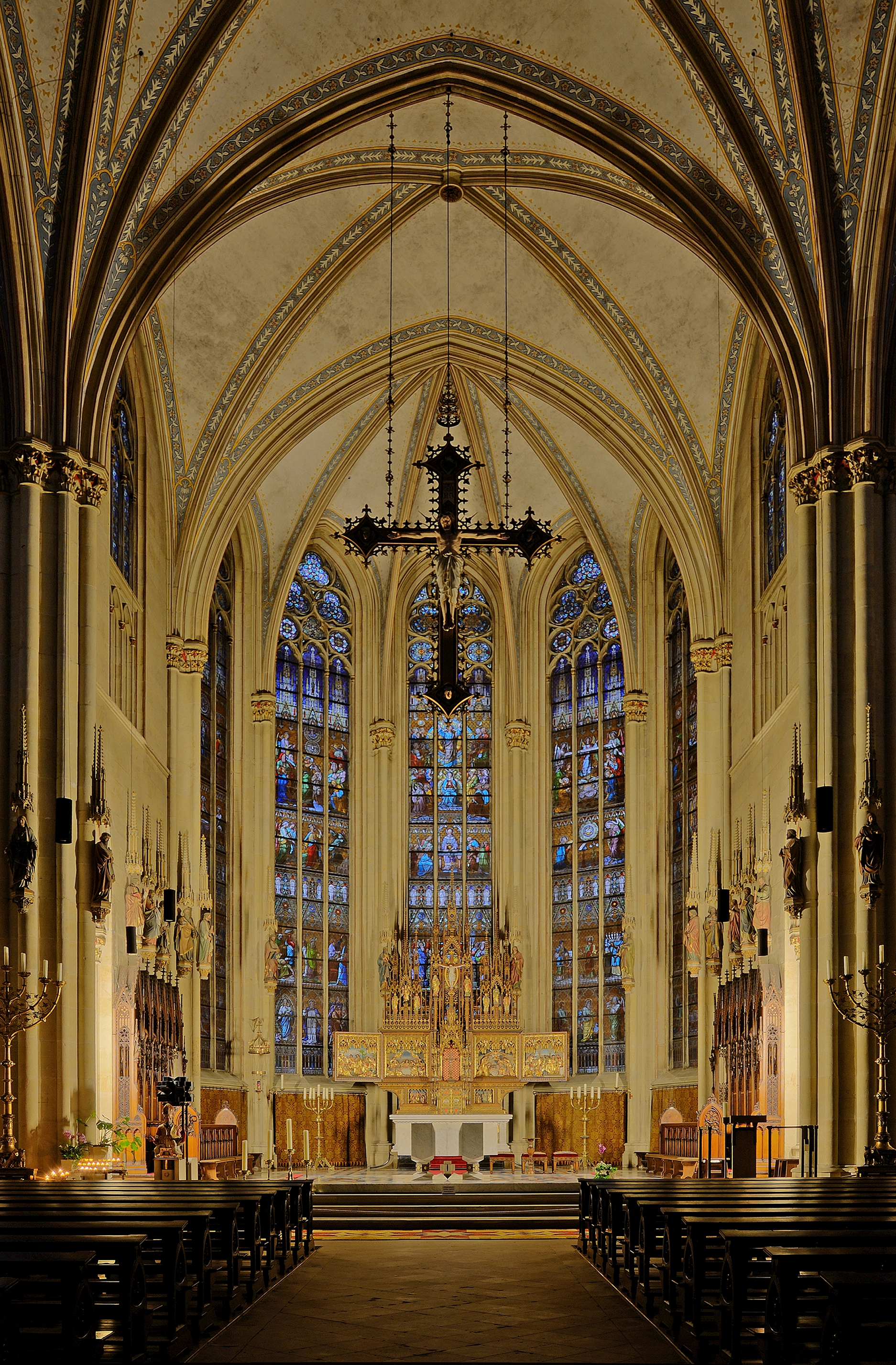 Billerbeck (North Rhine-Westphalia, Germany) – Saint Liudger Priory Church (also known as Billerbeck Cathedral) – main choir in the evening This photograph was taken with a Nikon D3000